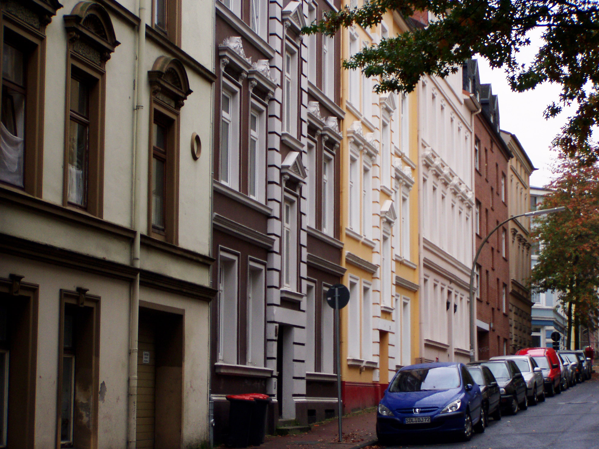 The street "Gerade Straße" in the "Phoenixviertel"-district in Hamburg-Harburg, Germany